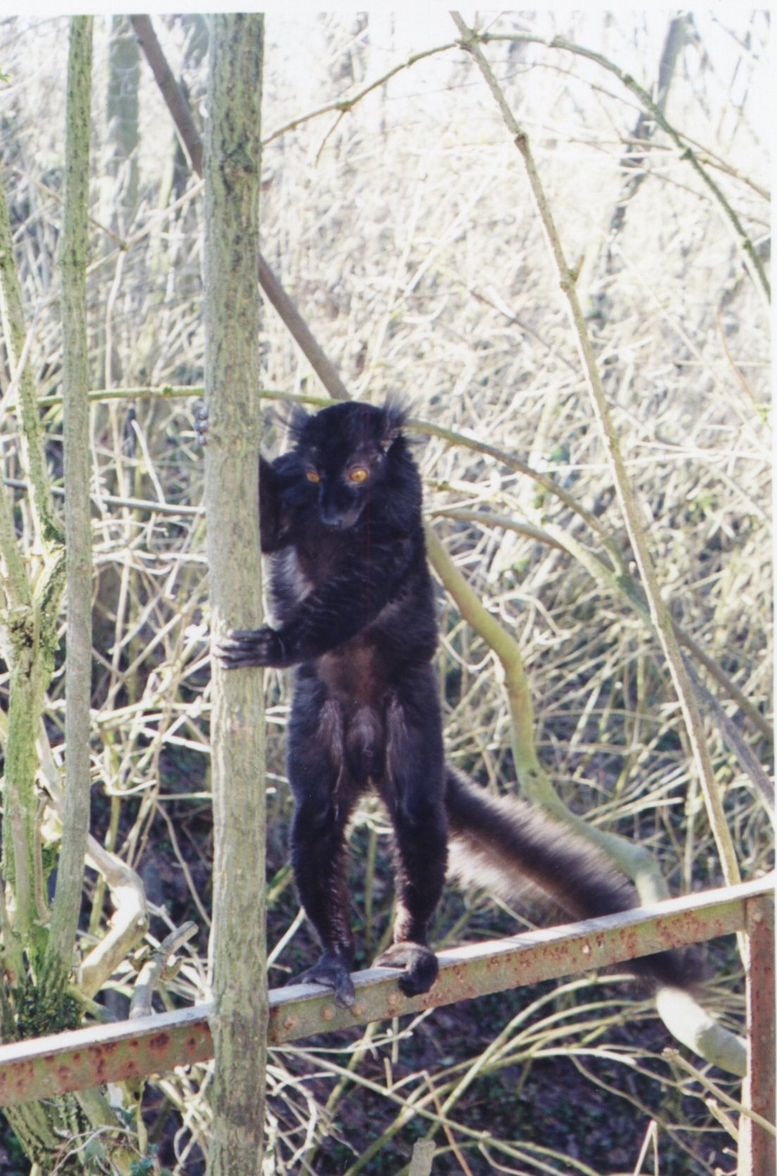 Eulemur macaco macaco adult male